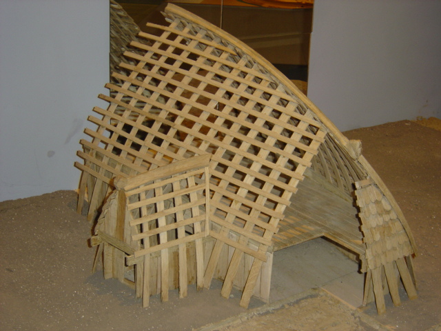 Model of a Viking building in Trelleborg museum, Denmark.